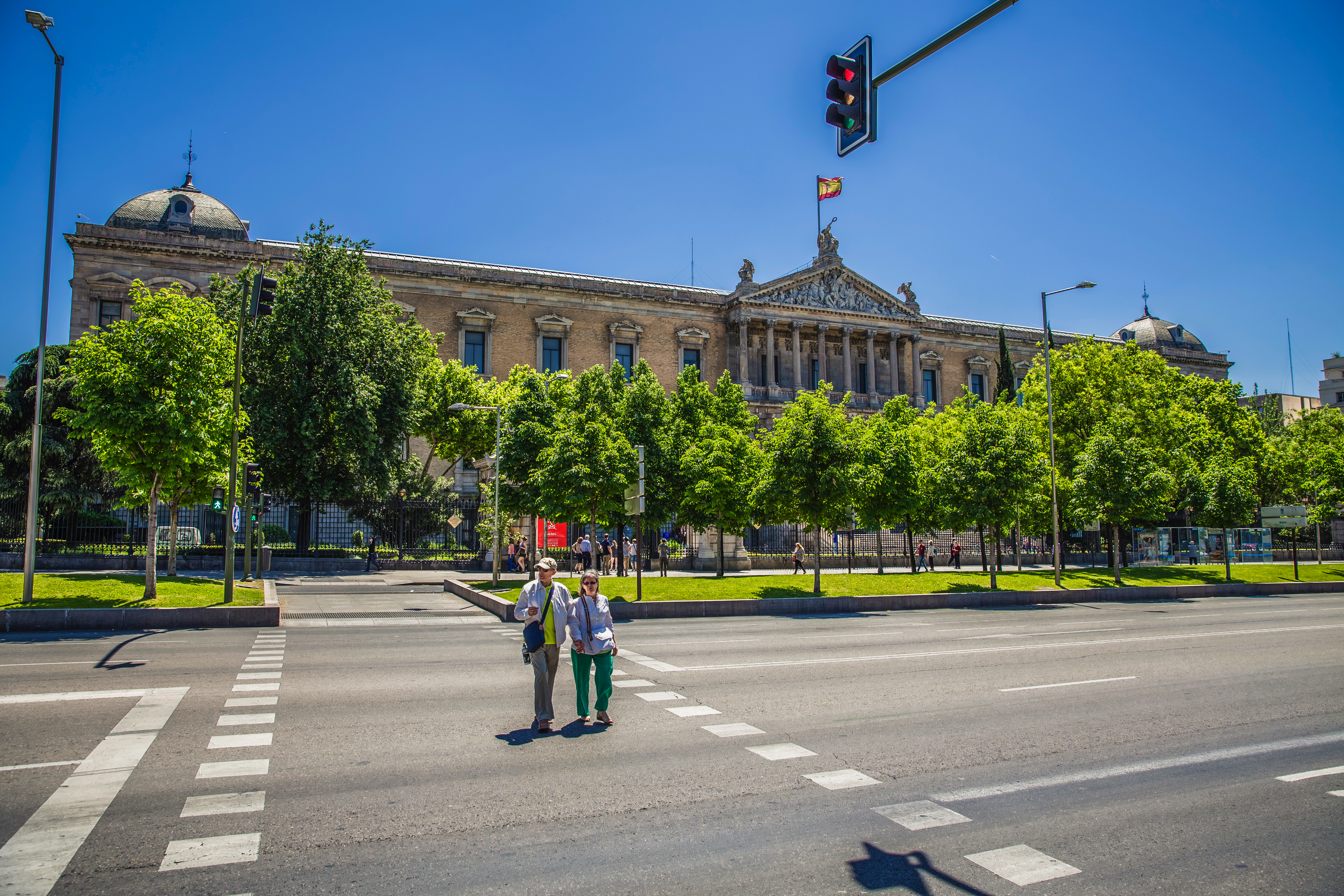 Tour around the City of Madrid Spain